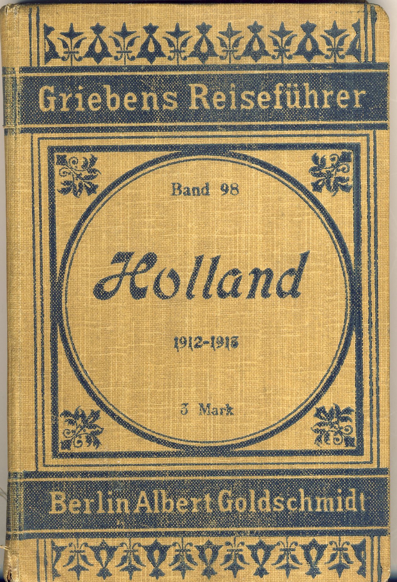 Cover of travel guide book entitled "Griebens Reiseführer, Holland" published by Albert Goldschmidt of Berlin